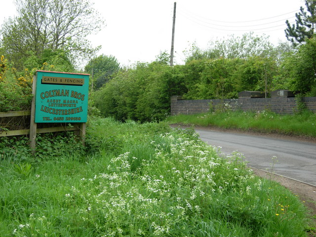 Great Central Railway Bridge, Ashby Magna. Site of Ashby Magna Station, Leicestershire